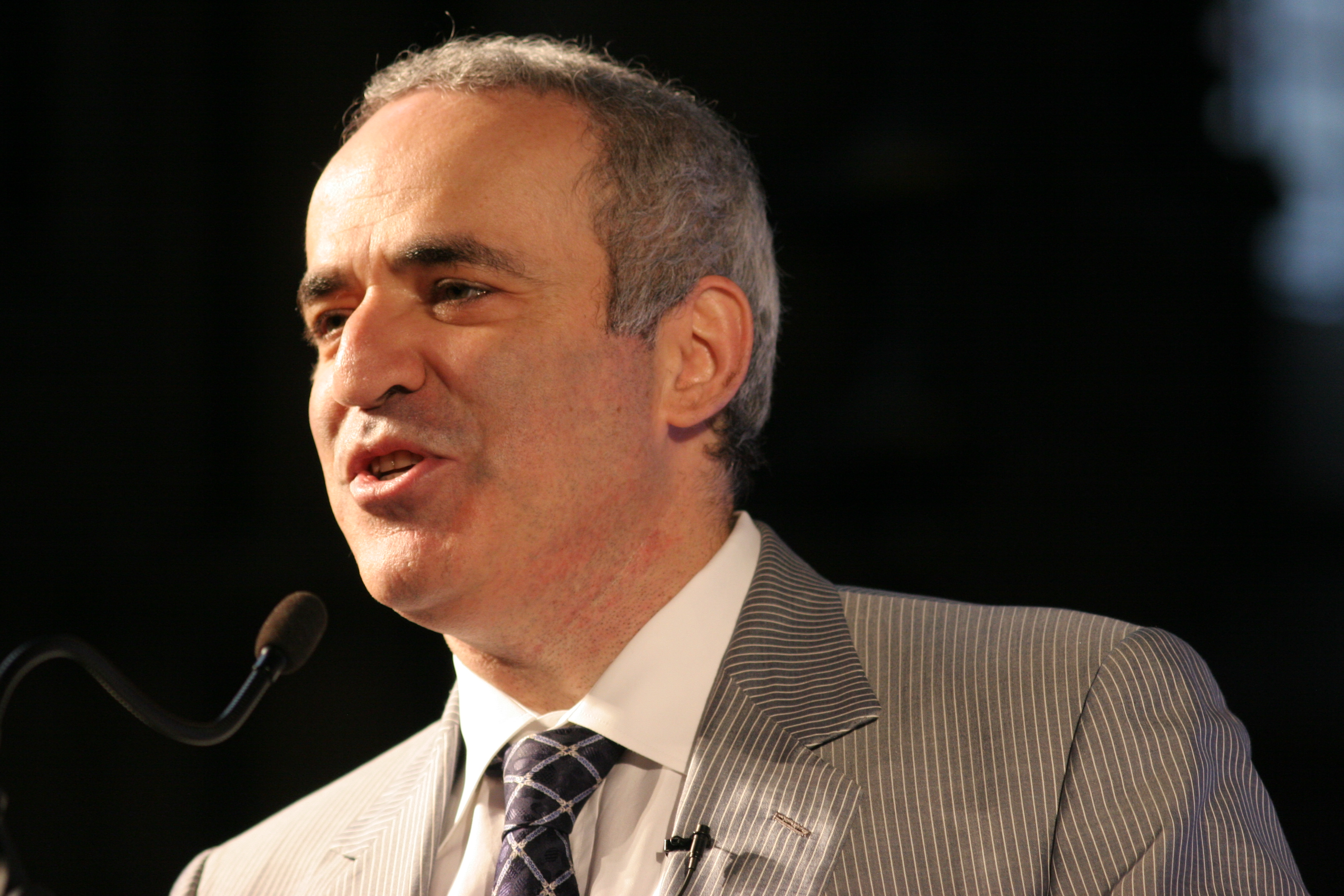 Garry Kasparov, chess grandmaster and former World champion, speaking at the Turing centennial conference at Manchester